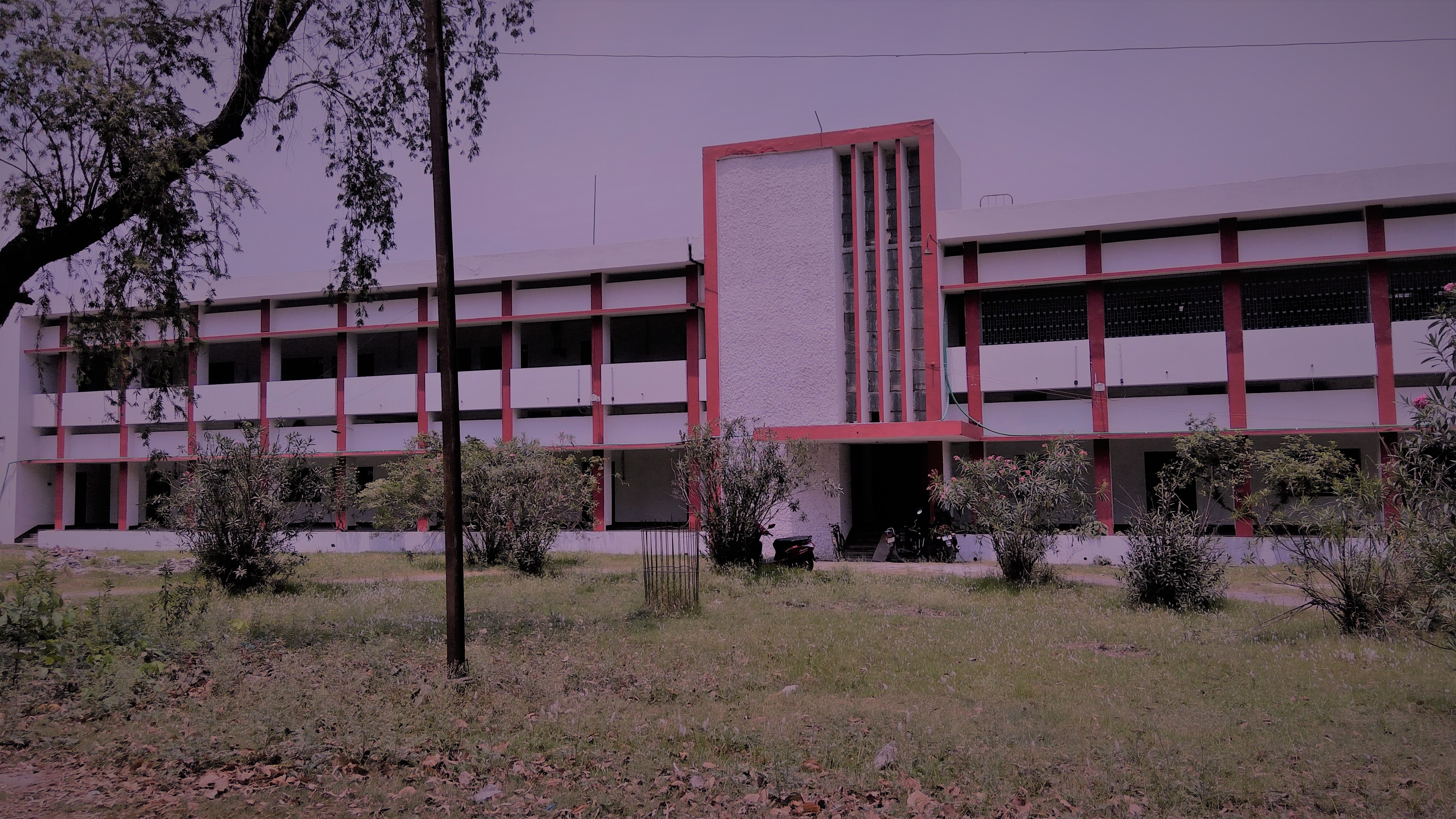 Science Block